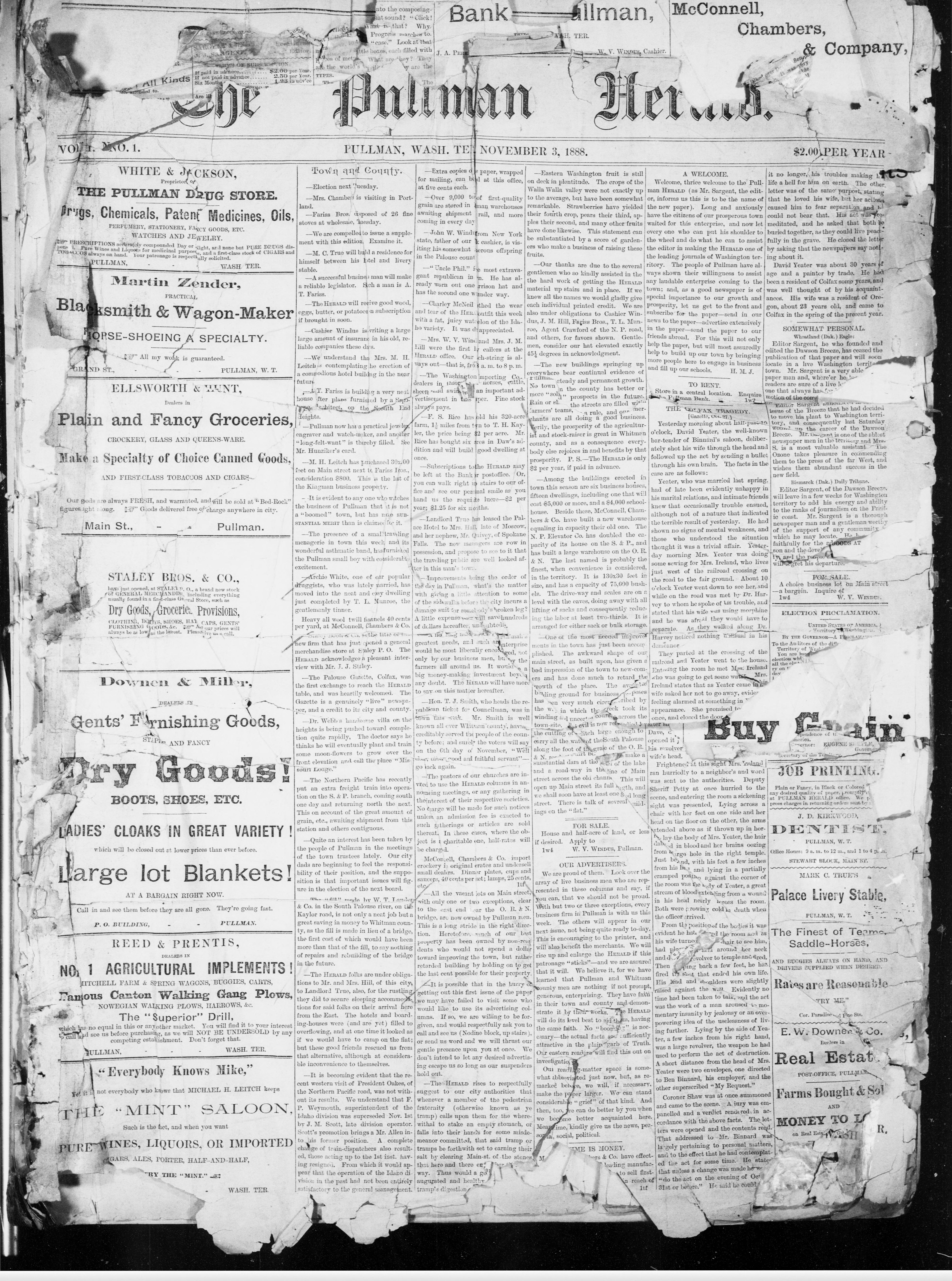 Front page of the Pullman Herald, of Pullman, Washington, dated 3 November 1888.